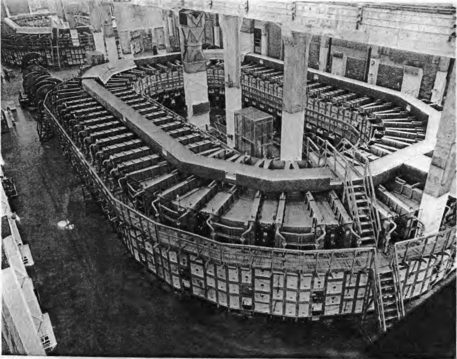 Large electromagnet called "Alpha 1 racetrack" used to separate the isotope uranium-235 from uranium-238 in natural uranium at the Y-12 plant in Oak Ridge, Tennessee, around 1945, part of the secret US World War 2 Manhattan Project to make an atomic bomb. It is divided into sections called alpha calutrons which operate on the principle of the mass spectrometer. In a large vacuum tank the magnetic field bends the path of lighter 235U ions in a beam of uranium ions more than the heavier 238U ions, so the two isotopes separate into separate beams and are collected by separate cups. The calutron tanks are spaced around the ring, located between the coils that generate the magnetic field. Since copper was desperately scarce during World War 2, the magnet's coils were made of thousands of tons of silver, borrowed from the U.S. Treasury. Eventually 14,700 tons were used for coil windings, returned to the Treasury after the war. The rectangular duct around the top of the machine contains the silver bussbar that supplies the current. This technique is no longer used for uranium enrichment. Caption: "View inside an Alpha 1 building, looking over one track toward the second. The view shows inside and outside tank fronts with enclosed bus running along the top of the tracks. Spare "tank units" may be seen on the floor between the tracks"